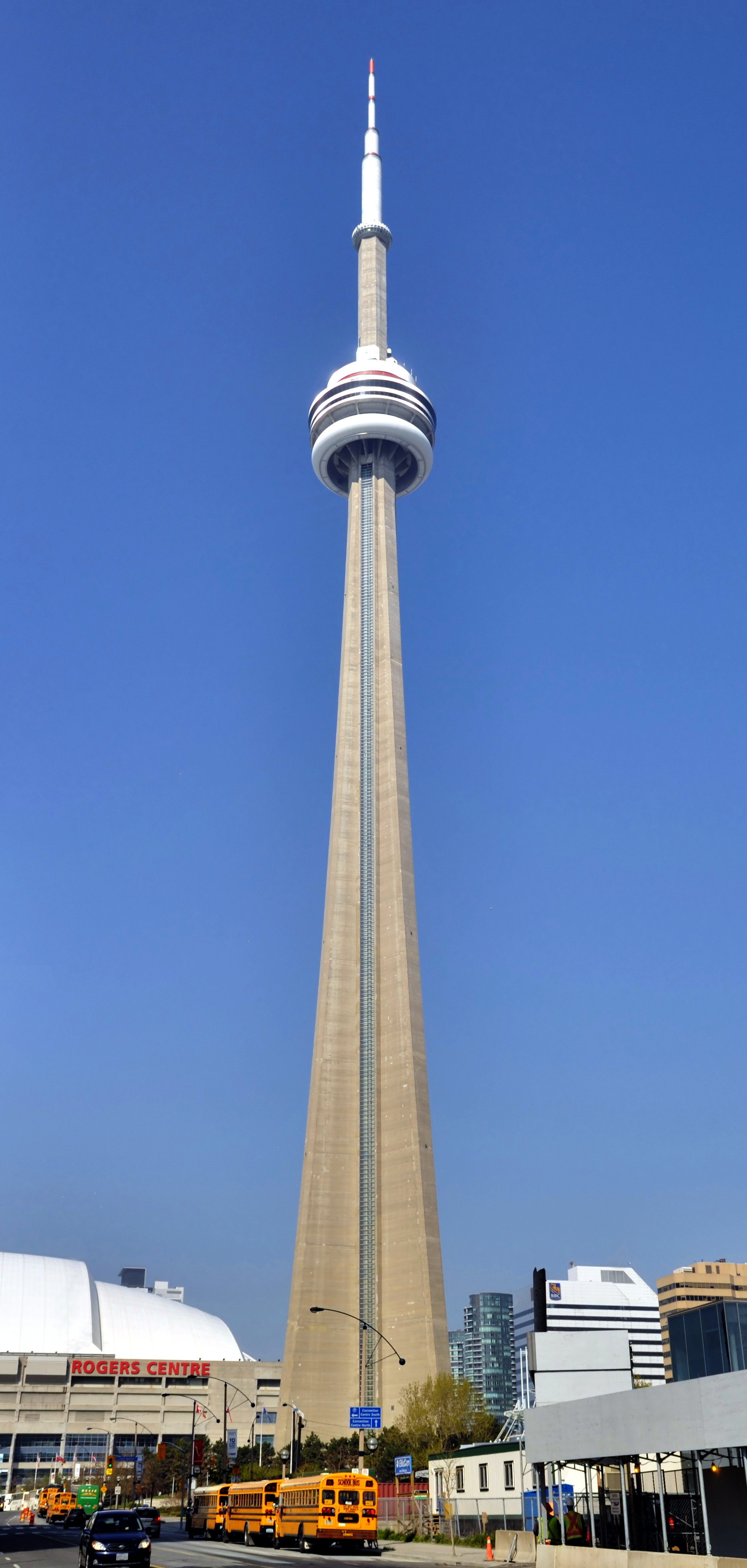 Toronto: CN Tower from Bremner Blvd